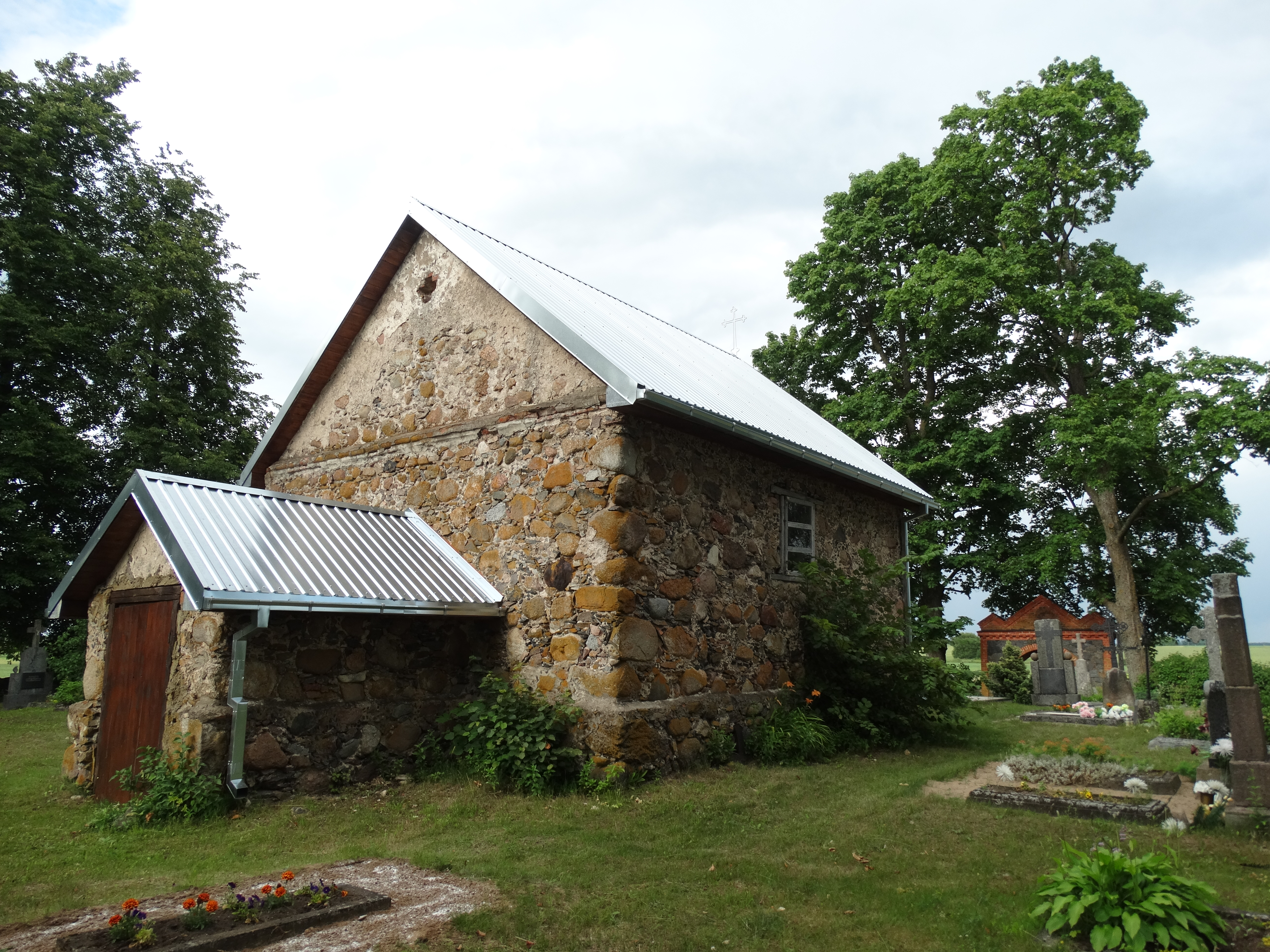 Cemetery chapel, Motiejūnai, Pasvalys District, Lithuania